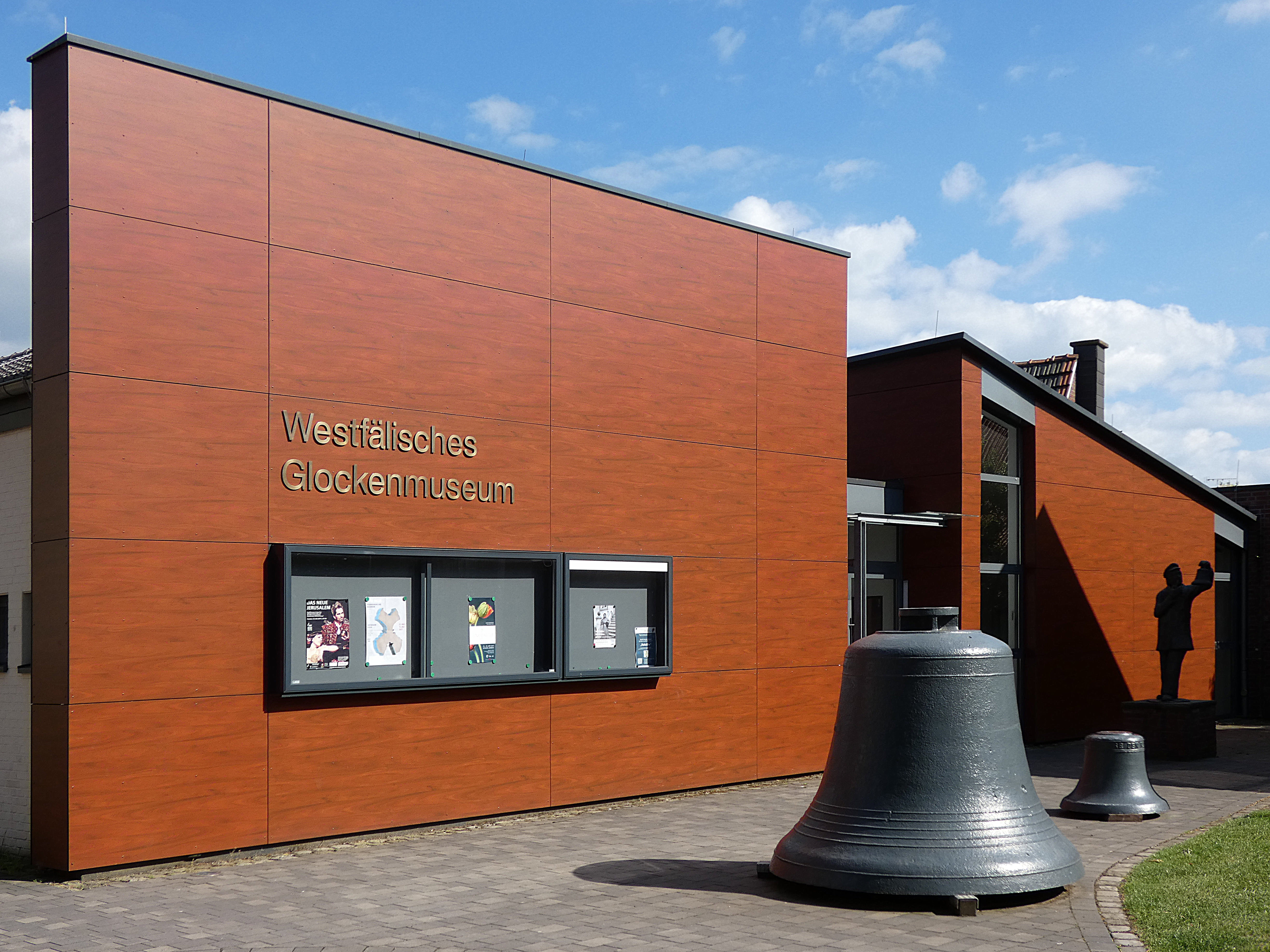 Westphalian museum for bells in Gescher